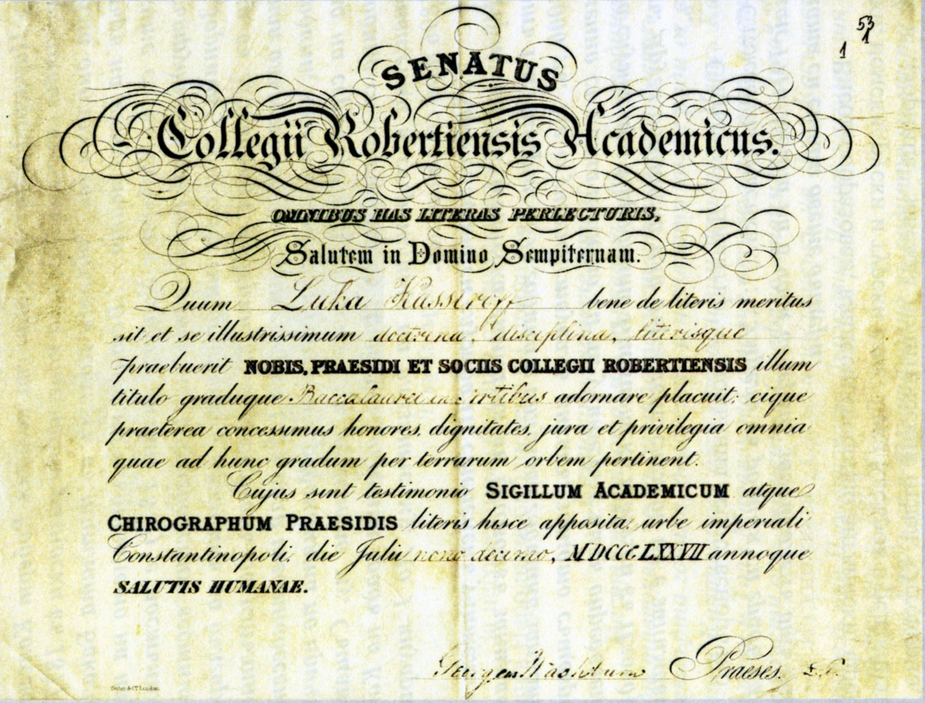 Certificate from Robert College, Istanbul, of Luka Kasarov (1854 - 1916) - Bulgarian educator and bibliographer, known as the first Bulgarian encyclopedist